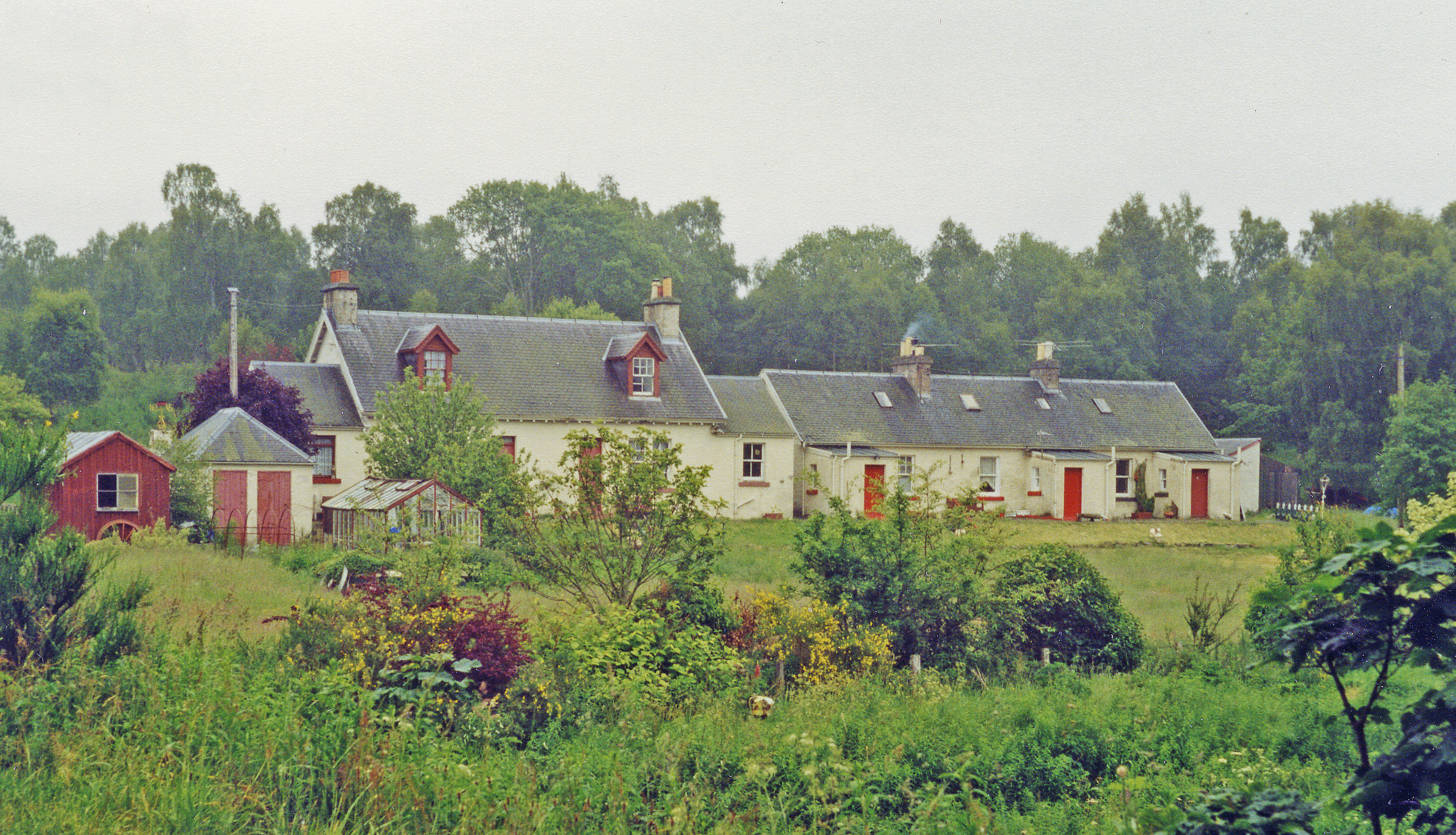 Dunphail station (remains). View eastward: ex-Highland Railway Aviemore (to left) - Forres (to right) seconary main line. The station closed with the line 18/10/65, after which all Perth - Aviemore - Inverness traffic was sent on the direct line over Slochd.